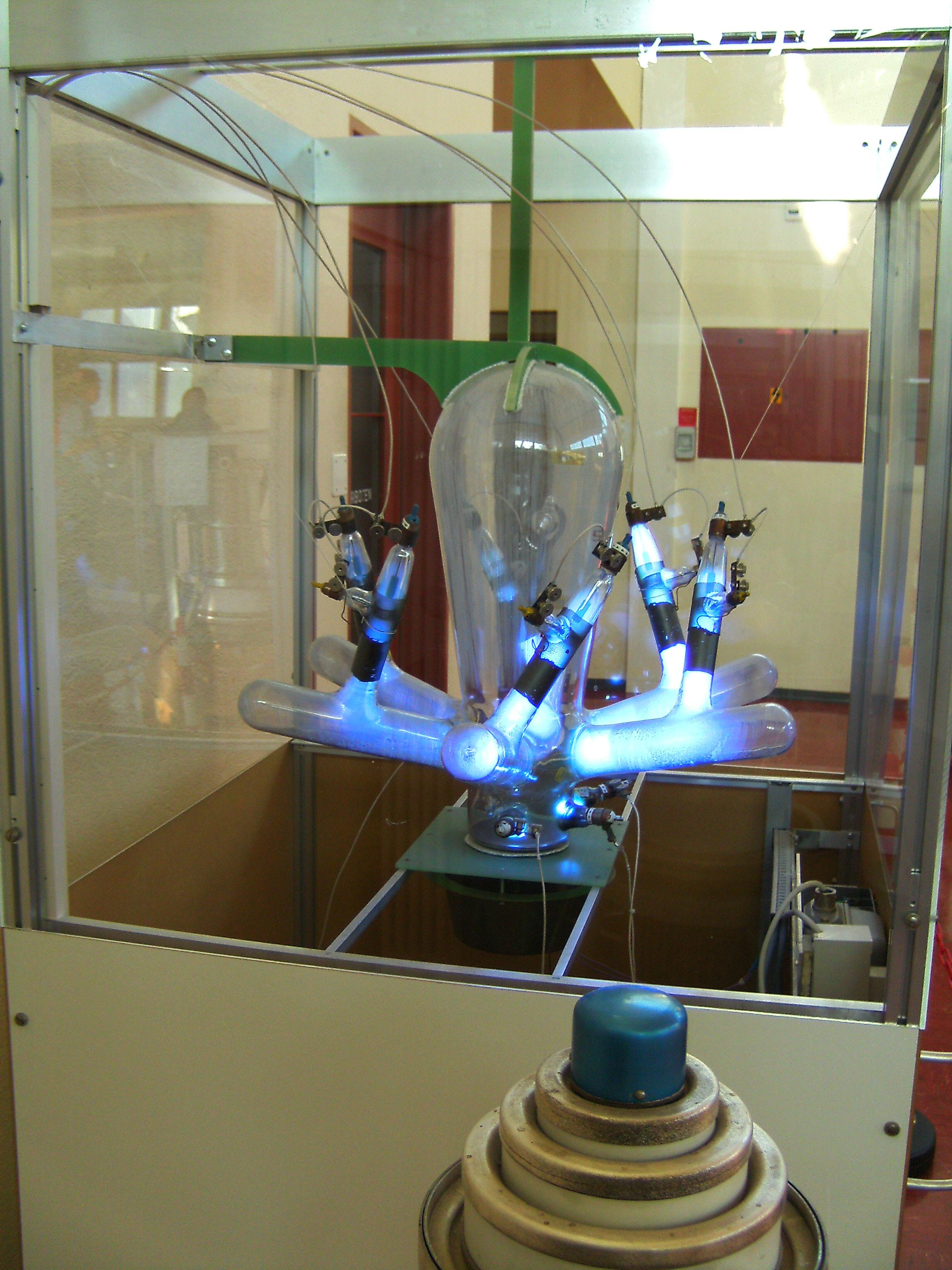 An early industrial 3-phase mercury vapor rectifier displayed in operation at a museum in Sendesaal Beromünster